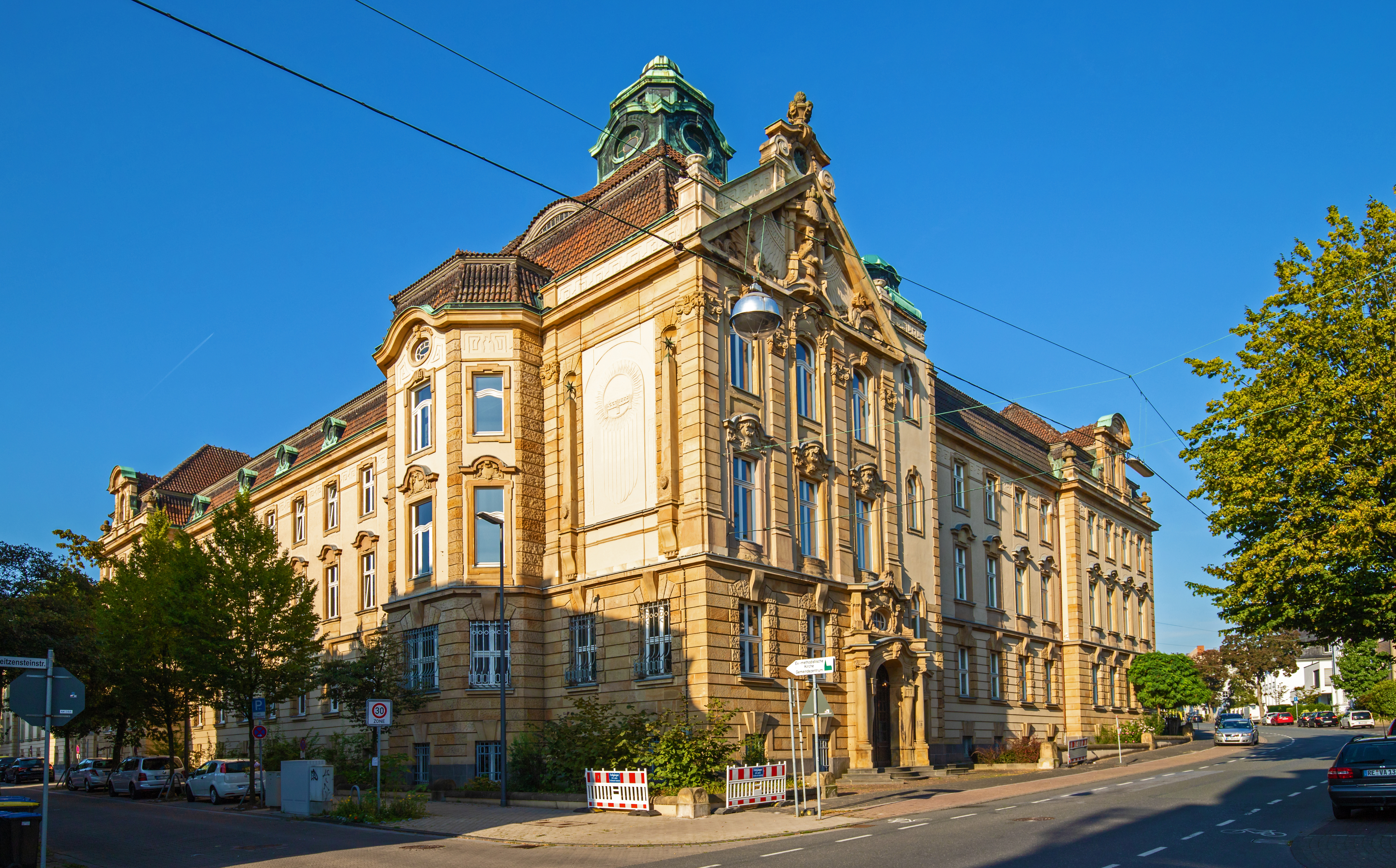 District court at Reitzensteinstraße - Recklinghausen, North Rhine-Westphalia, Germany This is a photograph of an architectural monument.